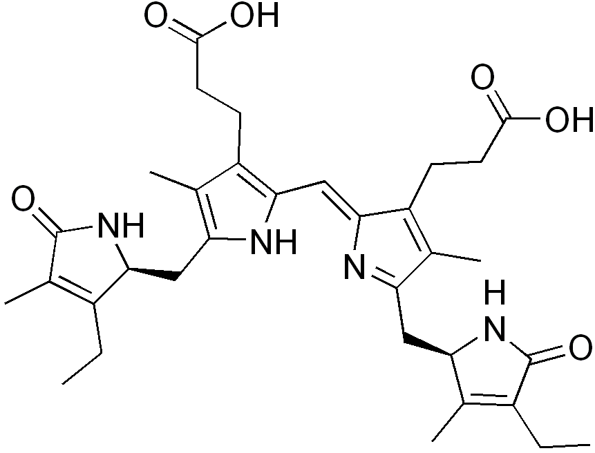 chemical structure of phycourobilin